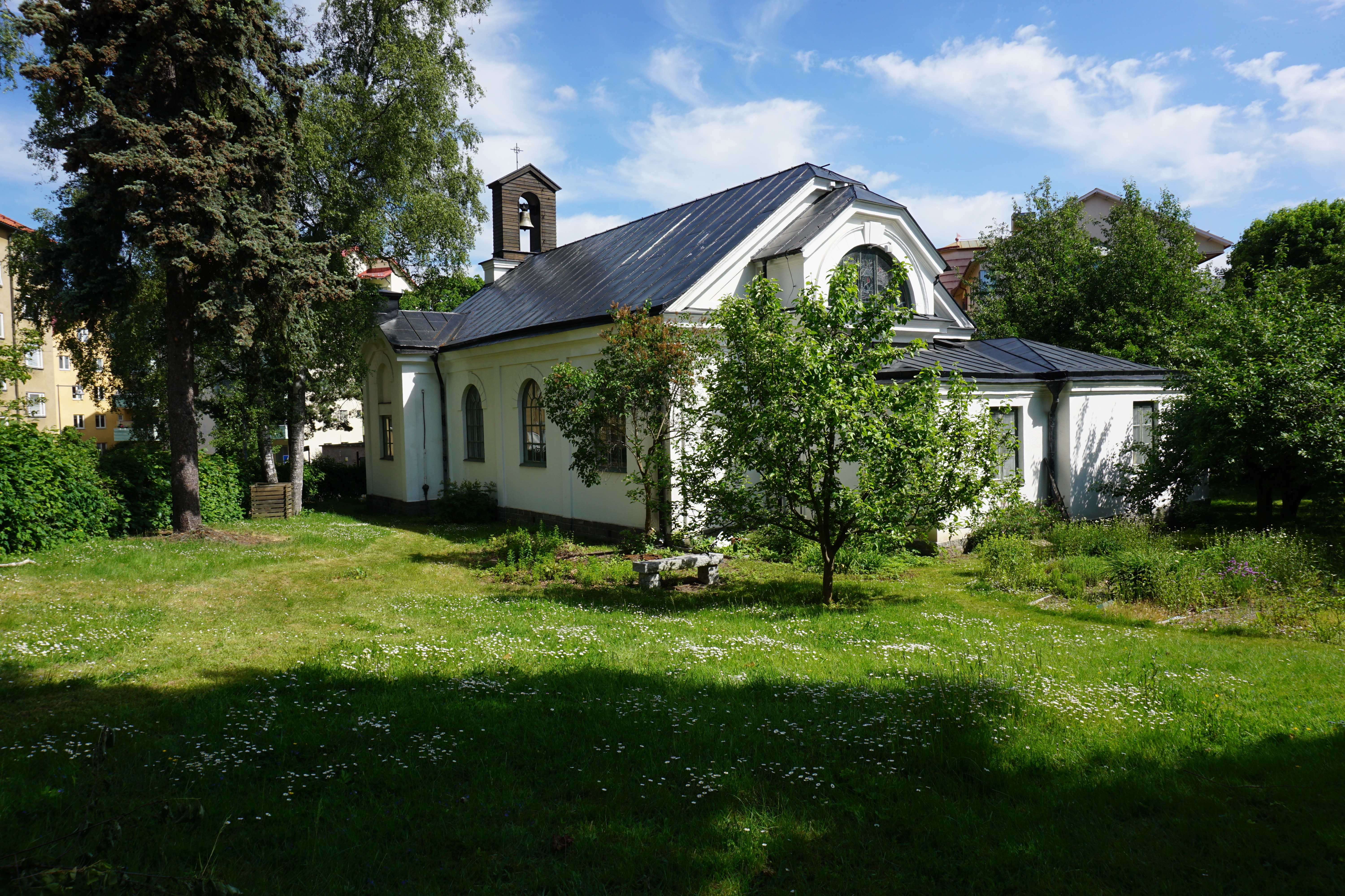 Lilla Alby kyrka i Sundbyberg